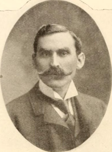 Portrait of New York assemblyman John F. O'Brien